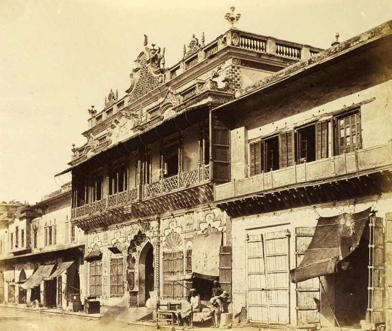 Chandni Chowk, Delhi.